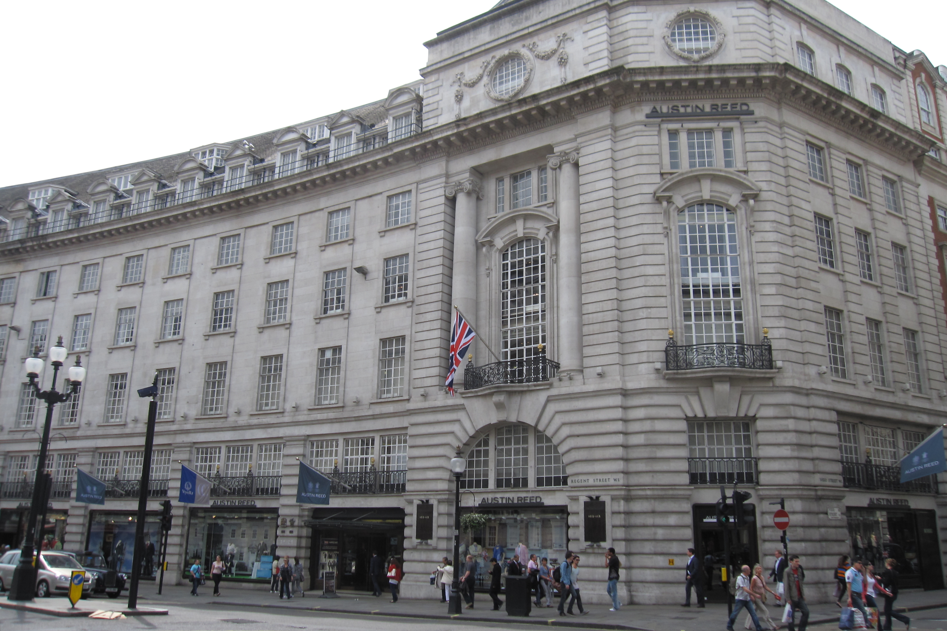 Austin Reed flagship store on 103-113 Regent Street in London.